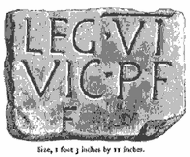 Building-stone of the Legio VI Victrix, found in or before 1599 in Birdoswald. Later taken to Naworth Castle, where William Stukeley and John Horsley saw it. Thereafter taken to Rokeby, where it now is. Date AD 43-410 , Inscription: The Sixth Legion Victrix Pia Fidelis built this. (RIB 1916).